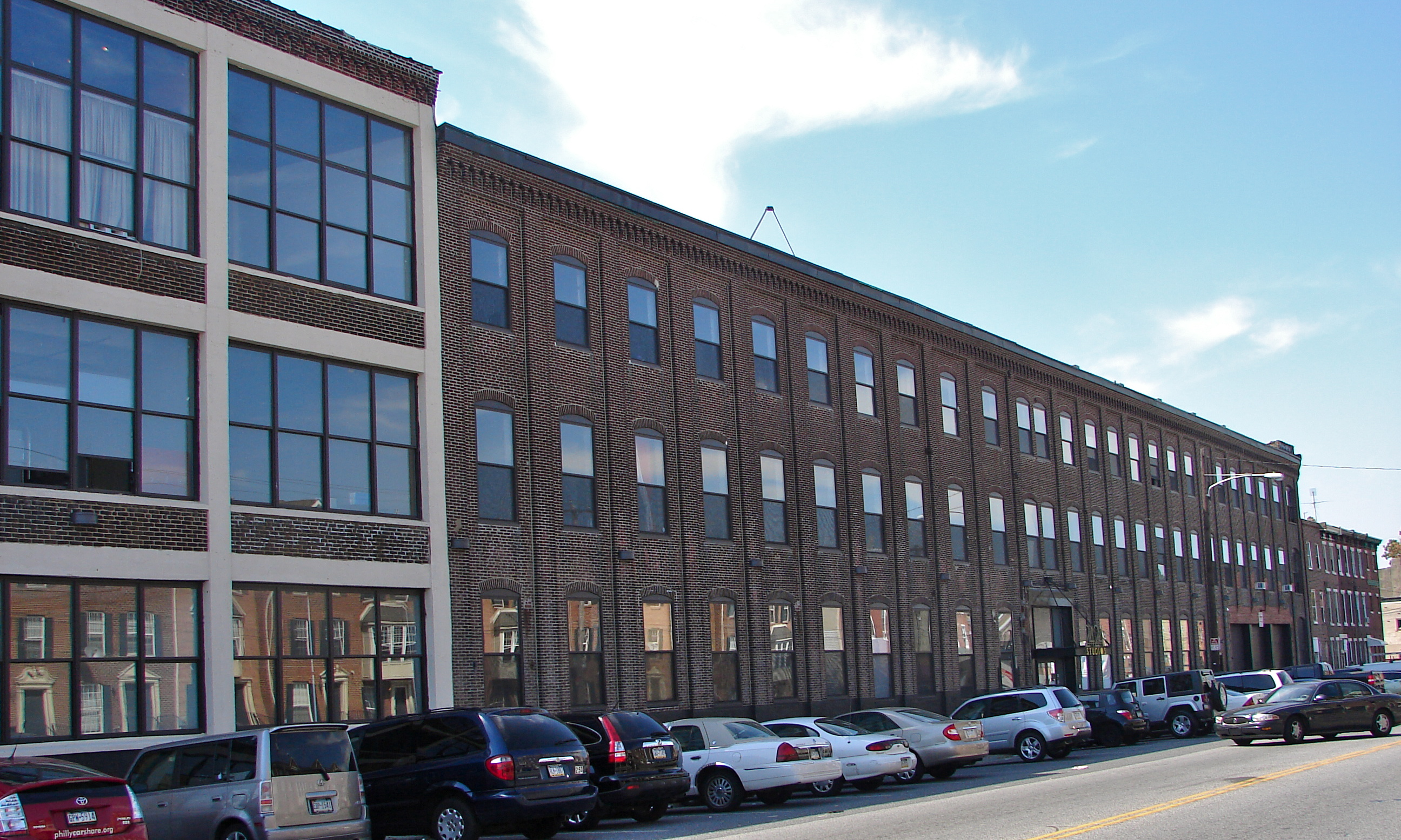 H.W. Butterworth and Sons Company Building in Philadelphia on the NRHP since June 28, 2010. At 2410 East York St. in the Kensington neighborhood of Northeast Philly. The main door is now numbered 2424 and has condos or apartments there. The loading dock entry to the far NW is definitely 2410, being next to 2408.